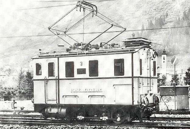 SchB HGe 2/2 3 delivery in Andermatt, Spring 1916